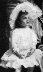 Princess Vera Konstantinovna of Russia